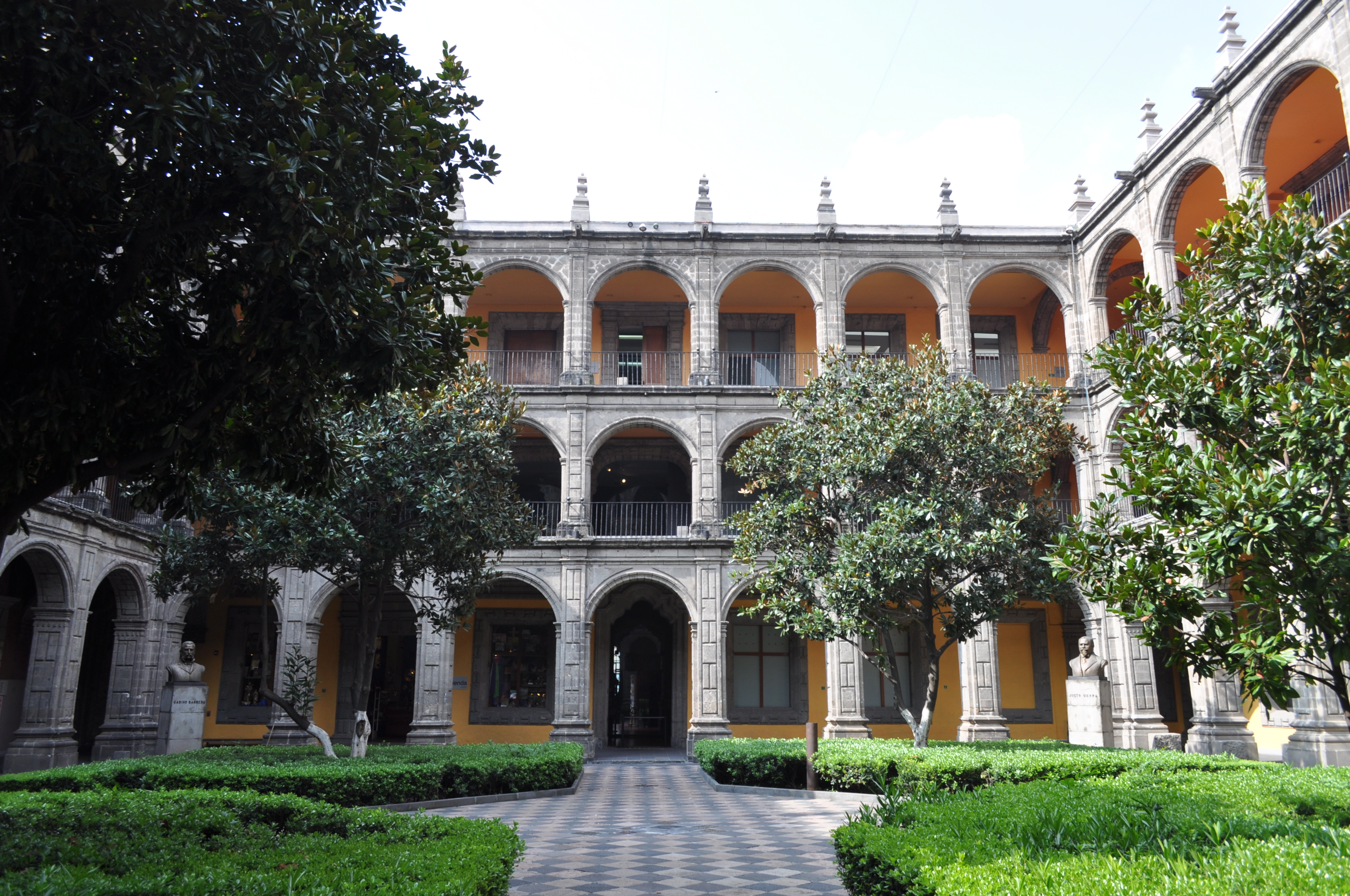 View of the courtyard patio, garden, and arcades of the Colegio Grande section of Colegio de San Ildefonso — in the historic center of México City.